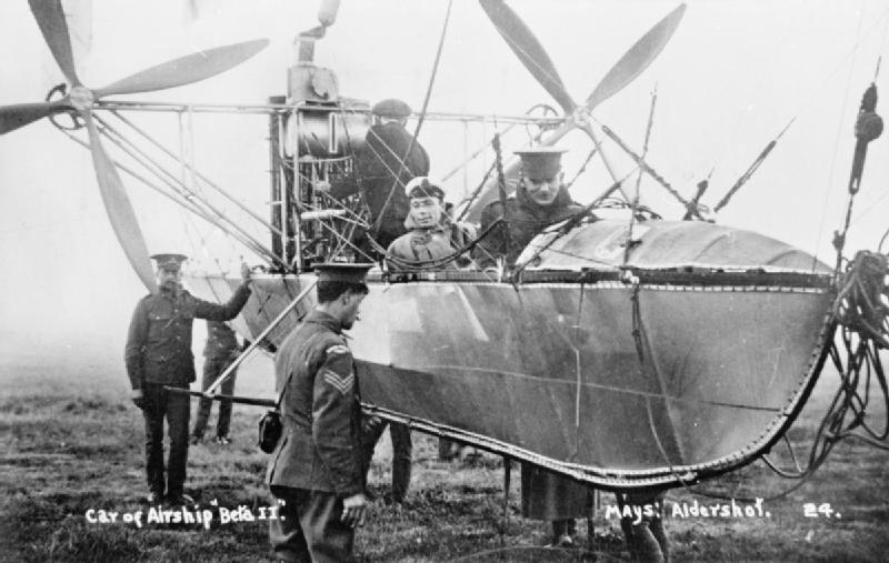 Aviation in Britain Before the First World War The gondola of army airship Beta II, on the ground with some army handlers. Two men are sat in the gondola, this photograph also gives a clear view of the arrangement of the twin, four bladed, propellors.